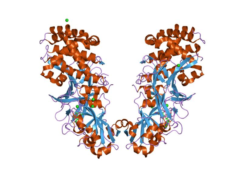 Cartoon representation of the molecular structure of protein registered with 1f0l code.